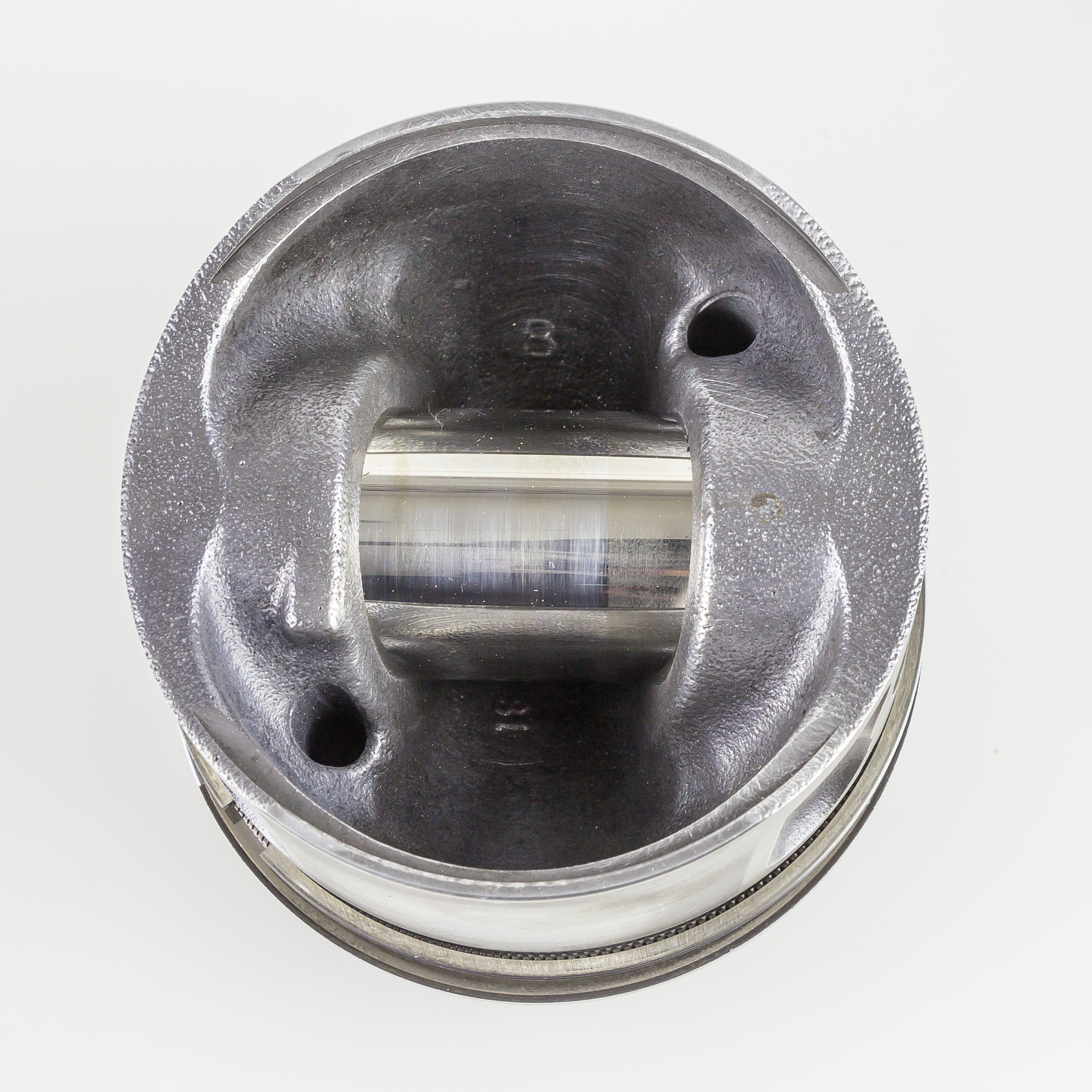 Nüral piston H268X, bottom view showing the gudgeon pin with signs of wear. Was used in the Diesel engine of a CITROËN JUMPER 2.2 HDi 120